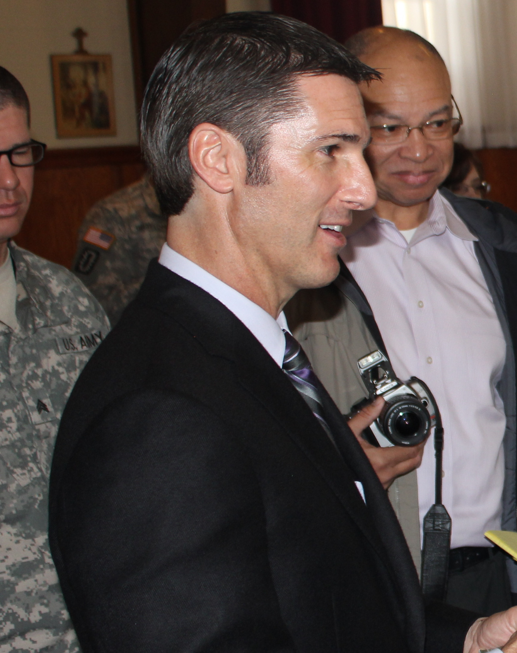 U.S. Soldiers and civilians line up to get autographs or photos made with Matt Stover, left, a former American Football placekicker, who spoke during the Prayer Breakfast and Leader’s Professional Development seminar in Aberdeen Proving Ground, Md., Feb. 12, 2013. (U.S. Army photo by Lt. Col. Carol McClelland/Released)